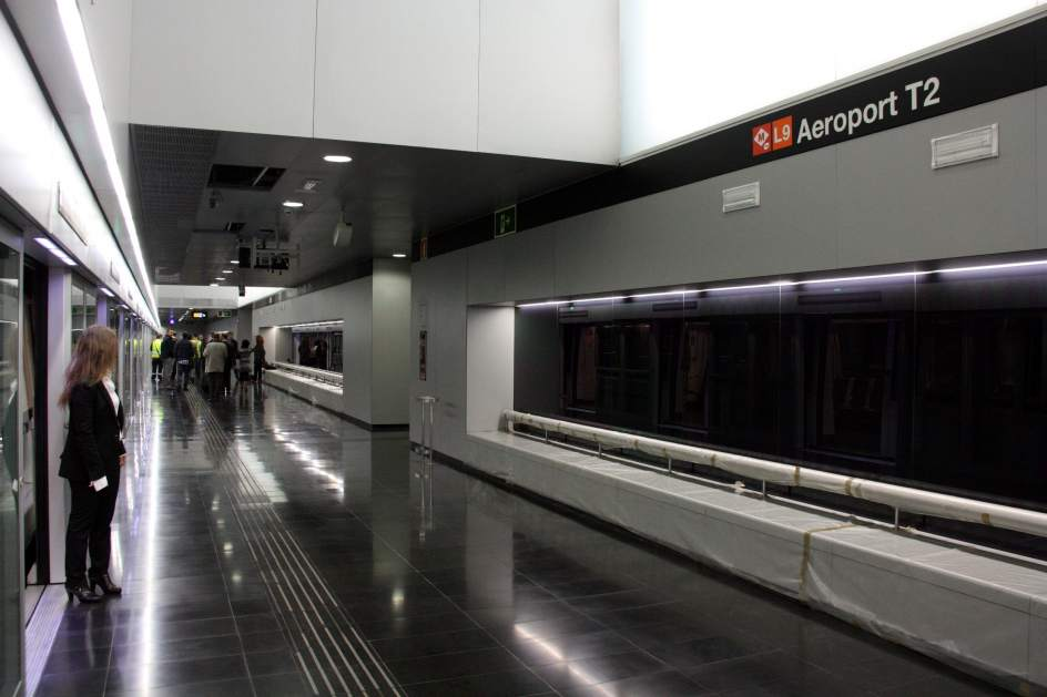 Aeroport t2 station